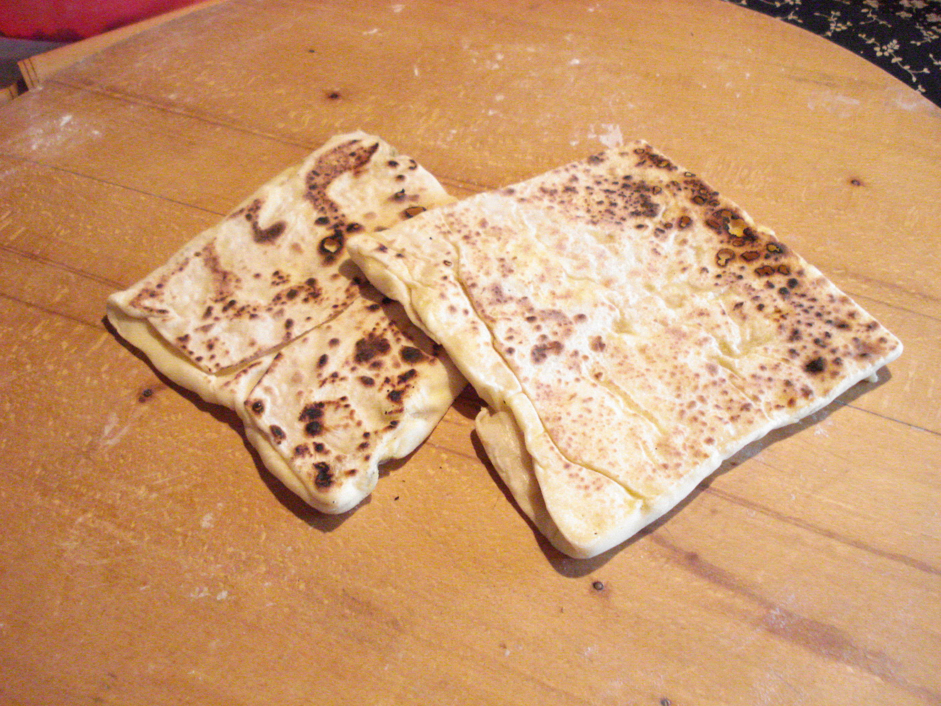 Gözleme from Turkish cuisine